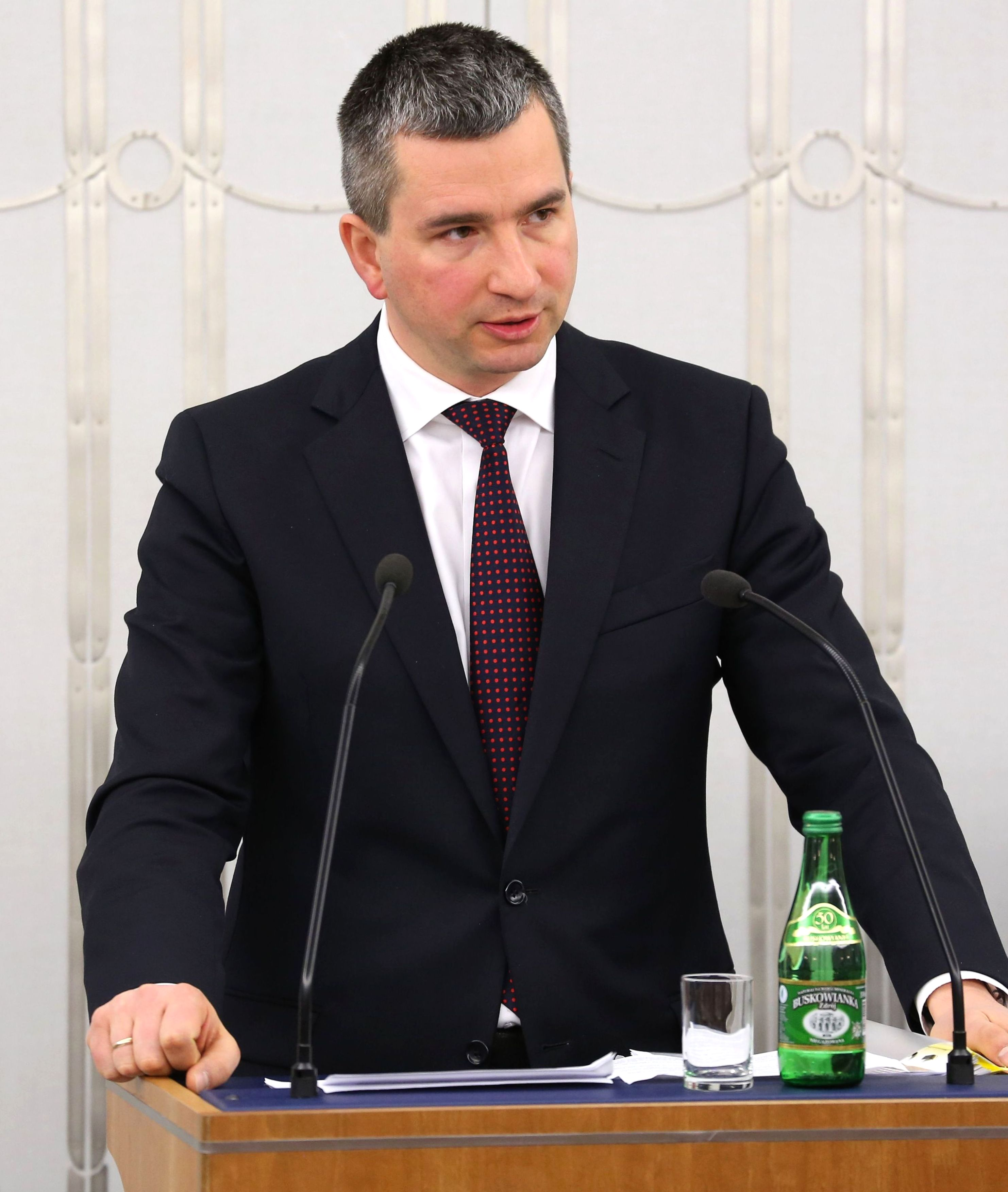 Minister of Finance Mateusz Szczurek during 69th sitting of the Polish Senate